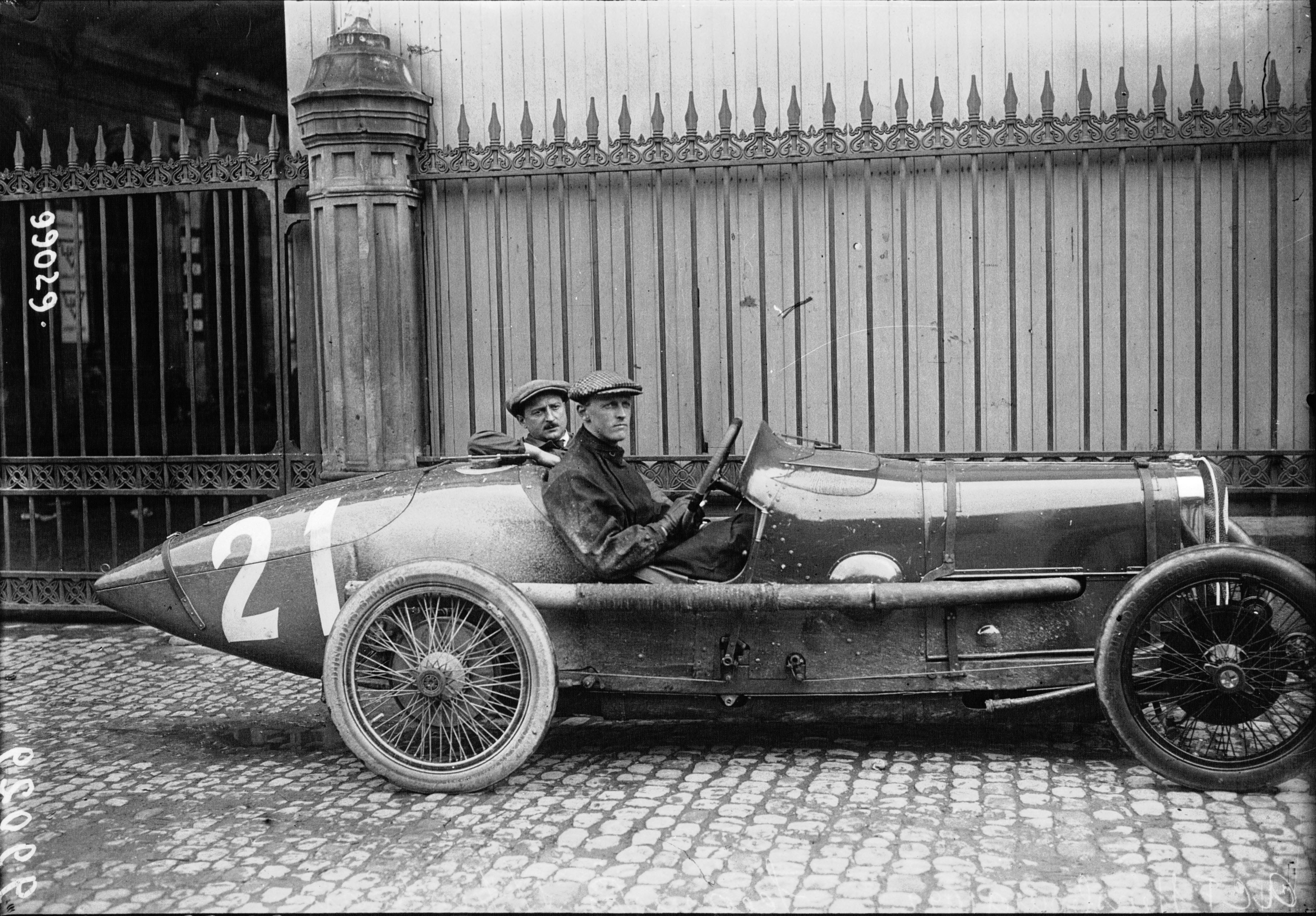 Henry Segrave at the 1922 French Grand Prix